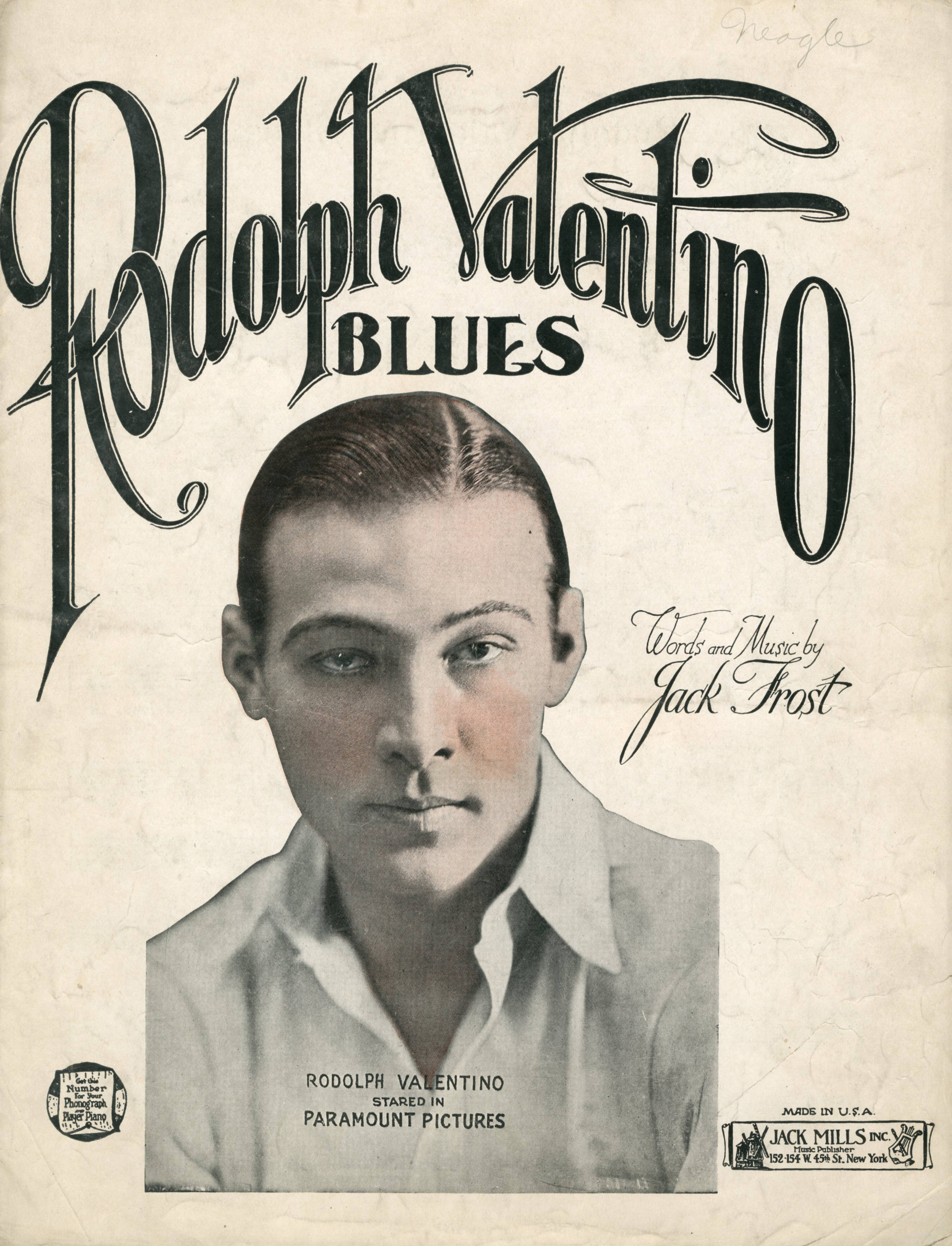 Sheet music cover: "Rodolph Valentino Blues" 1 vocal score (5 p.) ; 32 cm. Illustrated cover with image of Rudolph Valentino.